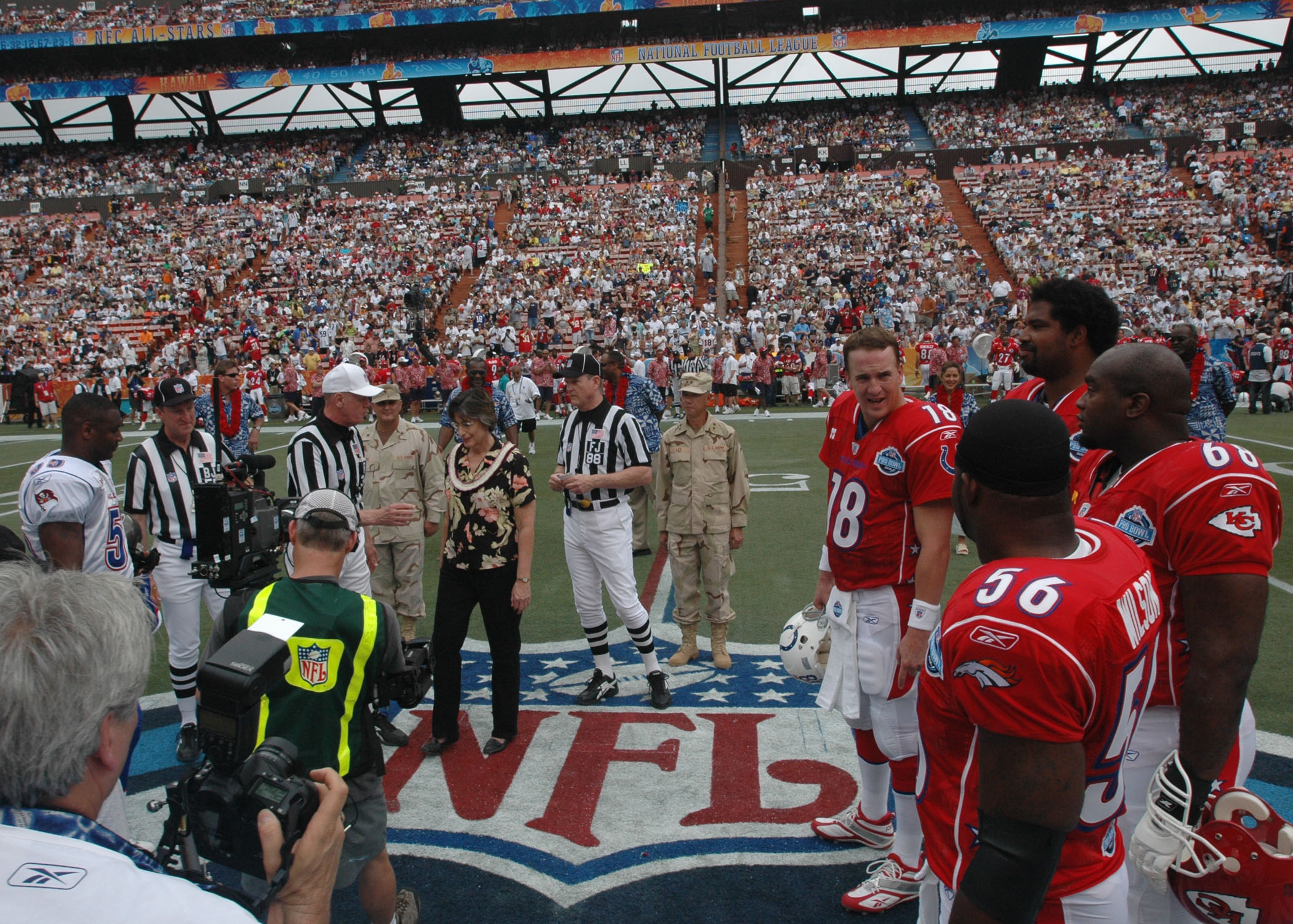 060212-N-9076B-303 Pearl Harbor, Hawaii – Hawaii Governor, Linda Lingle, prepares to toss the coin to start the 40th annual National Football League (NFL) Pro Bowl game. The Pro Bowl, features All-Star players from the National Football Conference (NFC) and the American Football Conference (AFC) in a game, which will be played for the 27th consecutive year at Aloha Stadium in Honolulu, Hawaii.